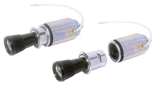 cigarette lighter (electric) for use in an automobile